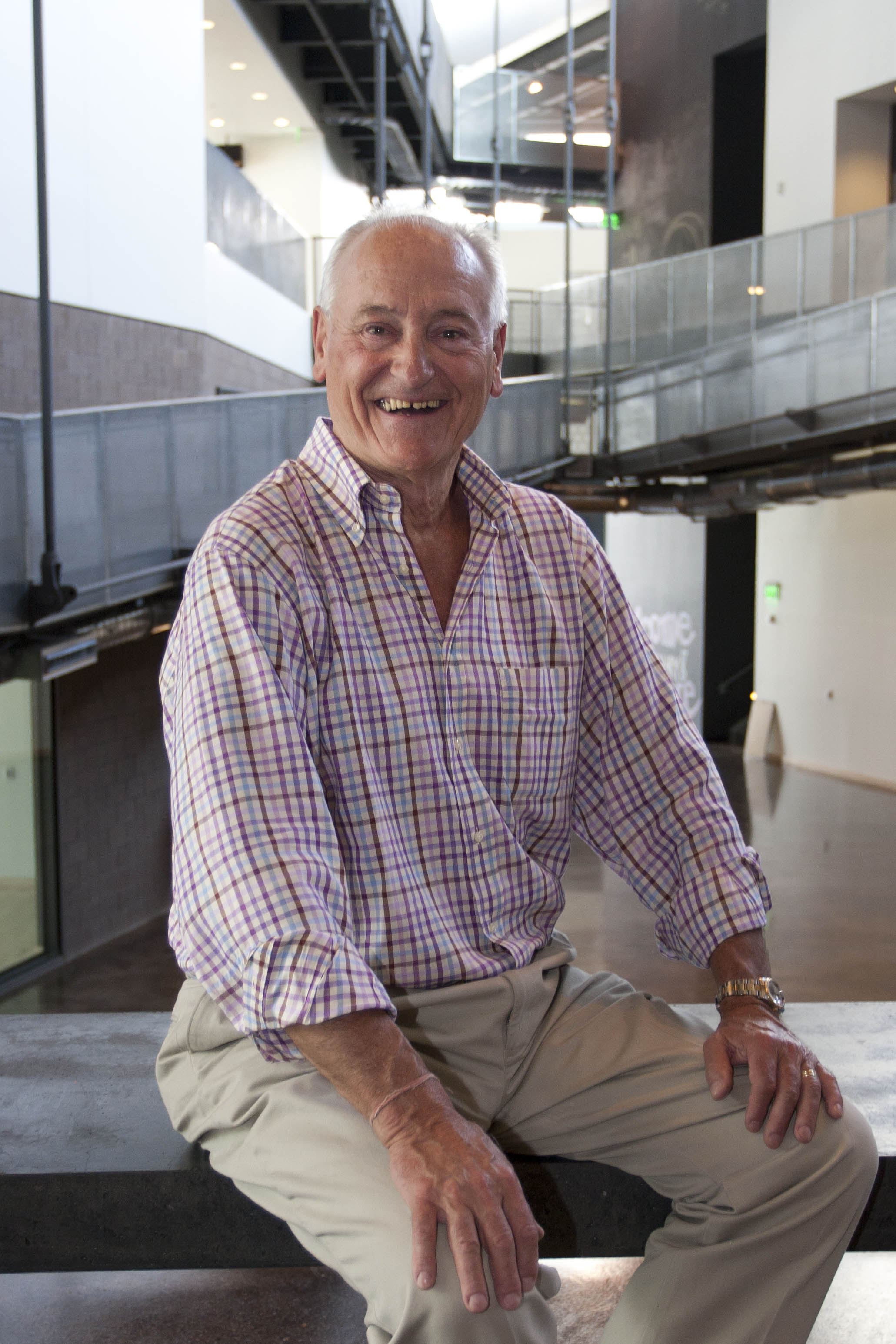 Richard "Dick" Celeste at the Edith Kinney Gaylord Cornerstone Arts Center on the Colorado College campus in Colorado Springs, CO.